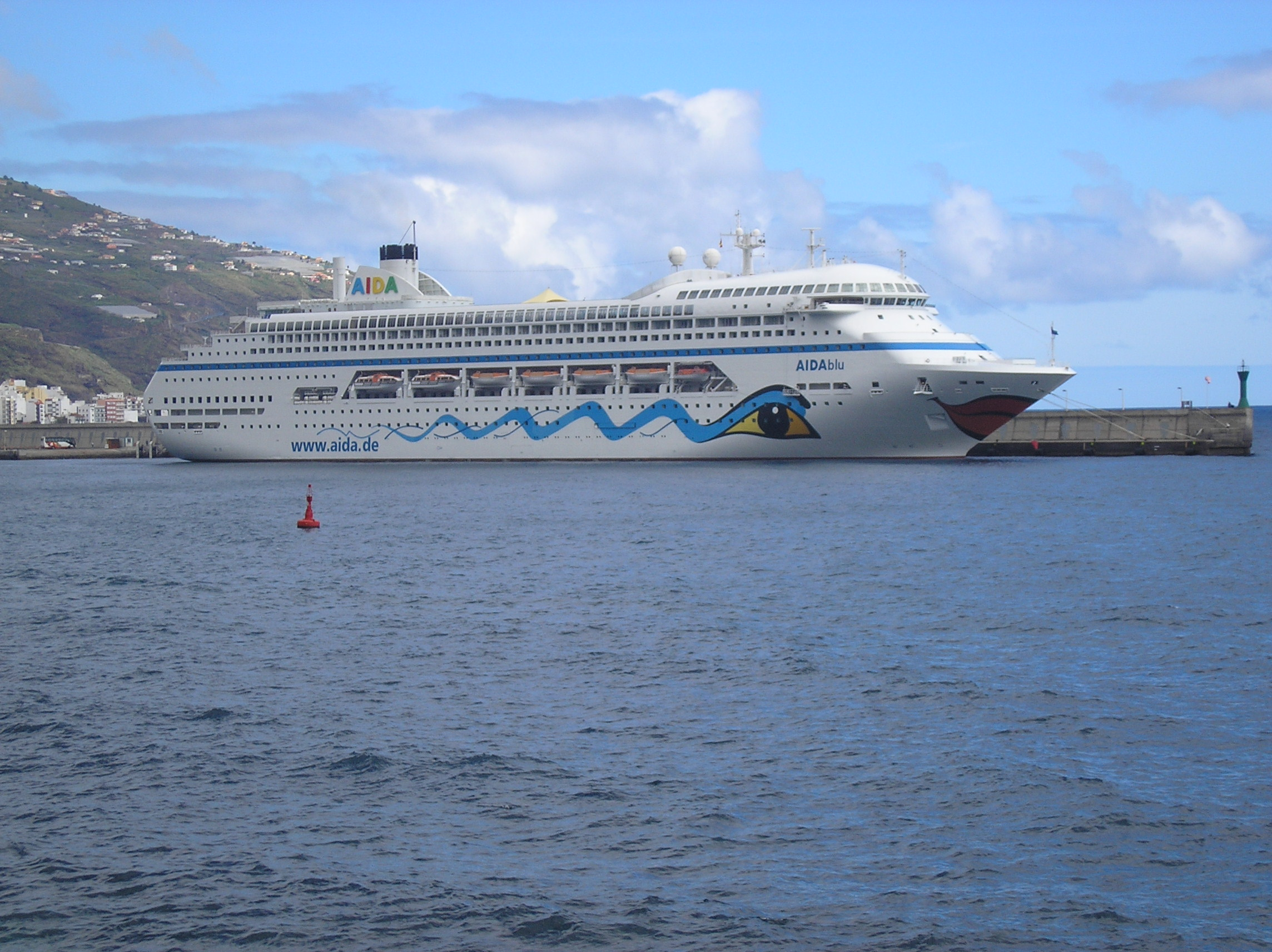 Old AIDAblu (now Pacific Jewel) in the harbor of Santa Cruz (La Palma) photographed by Dietrich Bartel (dieba) on 06.03.2007 / 15:04:06